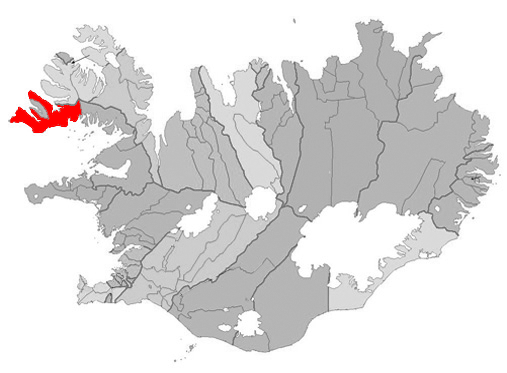 Based on Municipalities of Iceland.png.